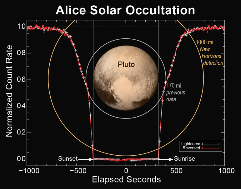 This figure shows how the Alice instrument count rate changed over time during the sunset and sunrise observations. The count rate is largest when the line of sight to the sun is outside of the atmosphere at the start and end times. Molecular nitrogen (N2) starts absorbing sunlight in the upper reaches of Pluto's atmosphere, decreasing as the spacecraft approaches the planet's shadow. As the occultation progresses, atmospheric methane and hydrocarbons can also absorb the sunlight and further decrease the count rate. When the spacecraft is totally in Pluto's shadow the count rate goes to zero. As the spacecraft emerges from Pluto's shadow into sunrise, the process is reversed. By plotting the observed count rate in the reverse time direction, it is seen that the atmospheres on opposite sides of Pluto are nearly identical. The Johns Hopkins University Applied Physics Laboratory in Laurel, Maryland, designed, built, and operates the New Horizons spacecraft, and manages the mission for NASA's Science Mission Directorate. The Southwest Research Institute, based in San Antonio, leads the science team, payload operations and encounter science planning. New Horizons is part of the New Frontiers Program managed by NASA's Marshall Space Flight Center in Huntsville, Alabama.